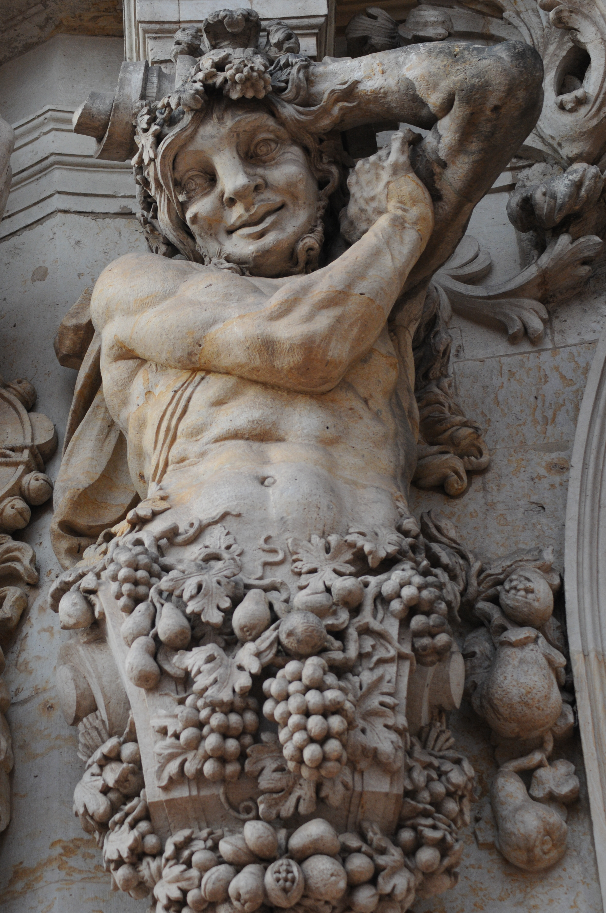 Dionysus, exterior statue. Dresden, Germany, Western Europe, January 9, 2014.